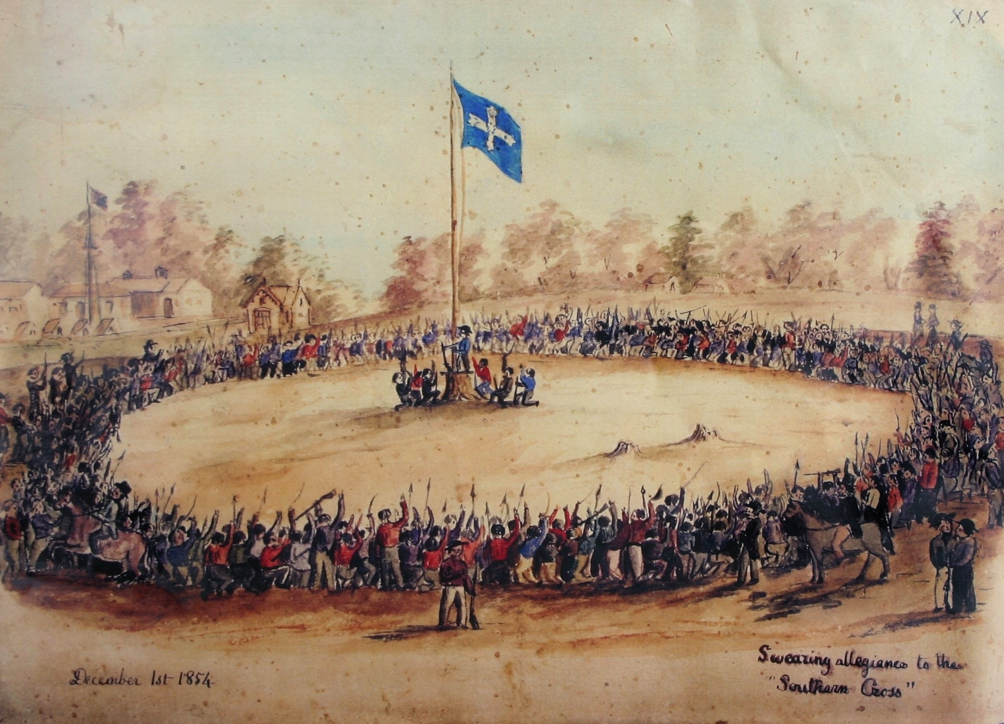 The Swearing of Allegiance to the Southern Cross (Eureka Flag) at Bakery Hill on 1st December 1854. The watercolour, along with others of Melbourne and the goldfields, was only discovered in 1996 when they were put up for auction at Christies, and subsequently bought by the Ballarat Fine Art Gallery. The painting provided the final authentication of the design of the original Eureka Flag.